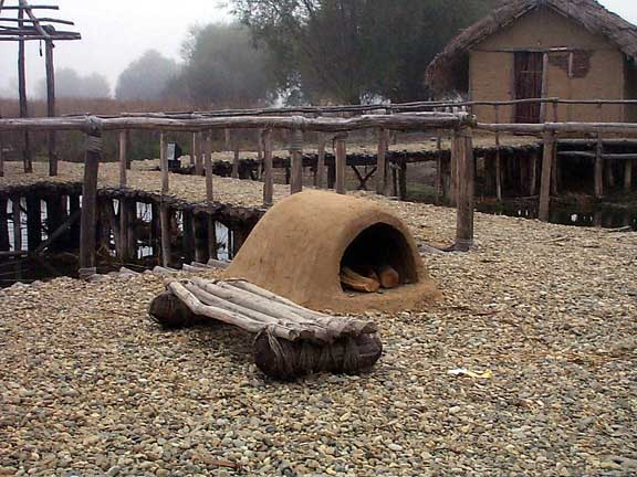 An earthen cover to protect the fire, image from the Exhibition of Prehistoric Finds, Dispilio, West Macedonia, Greece